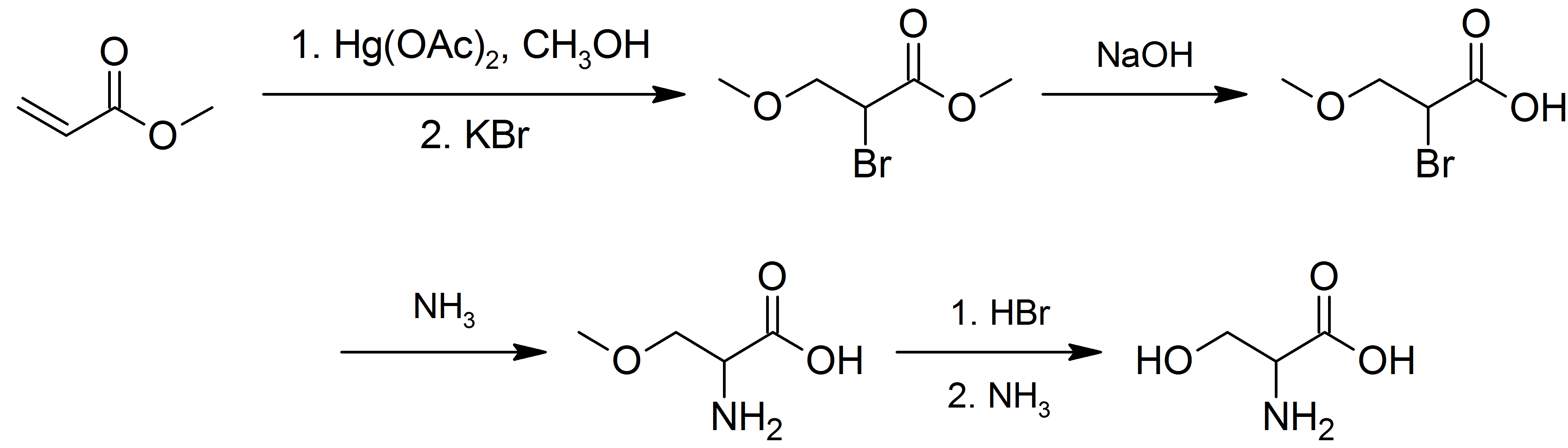 Synthesis of dl-serine. (1940) "dl-Serine". Org. Synth. 20: 81; Coll. Vol. 3: 774.